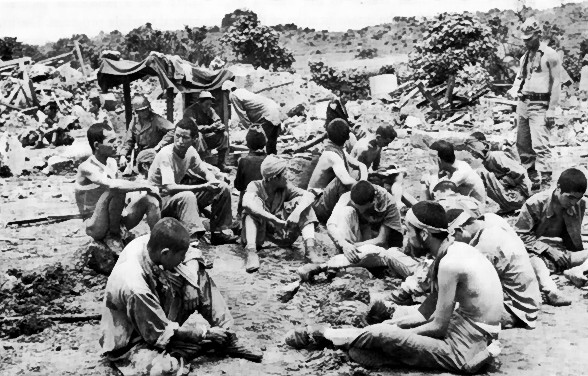 A group of japanese prisoners who preferred capture to suicide. They are waiting to be questioned by American officers.